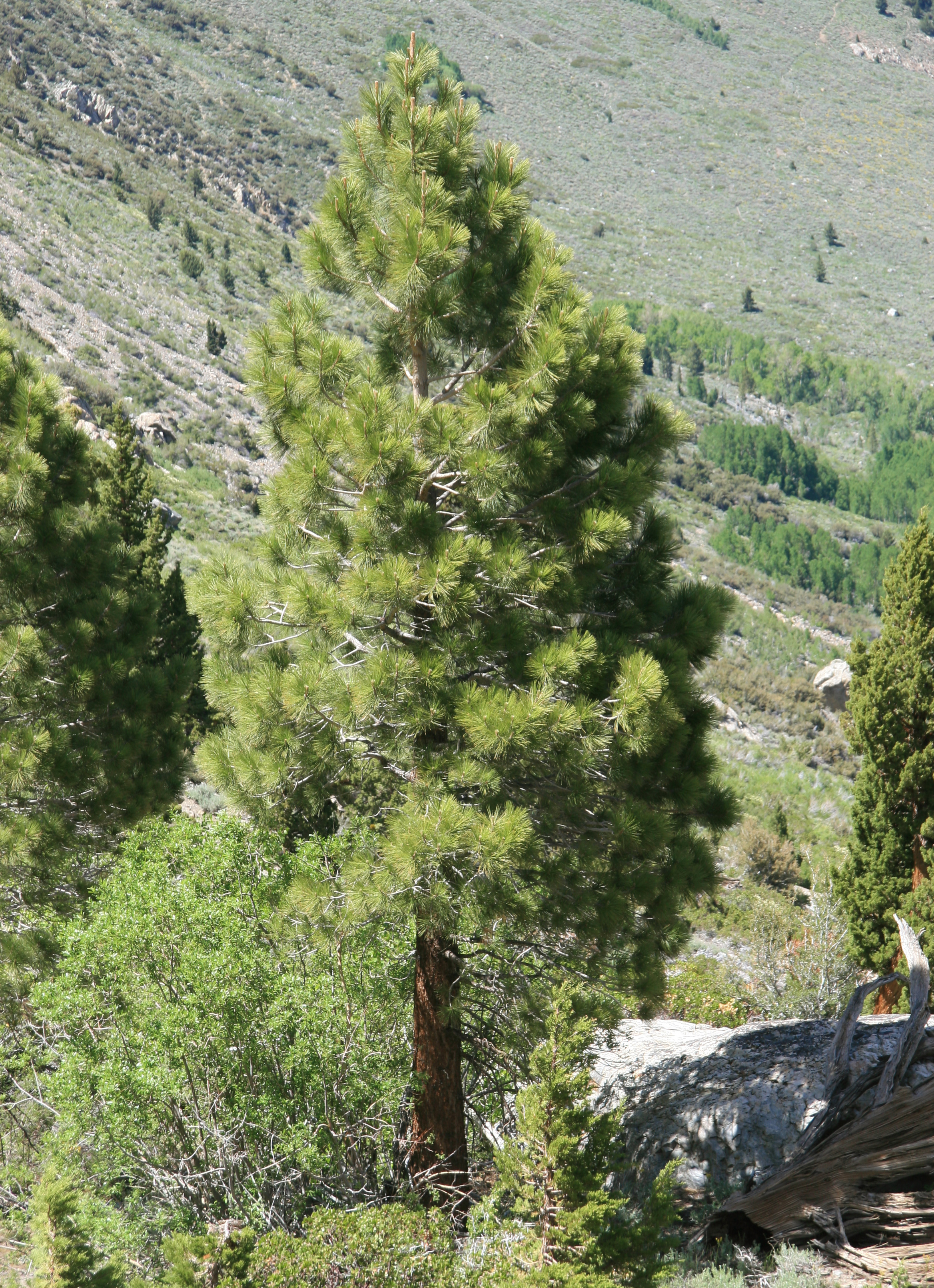 Young Jeffrey pine (Pinus jeffreyi), 7700ft along Rush Creek Trail. Ansel Adams Wilderness, Sierra Nevada USA.